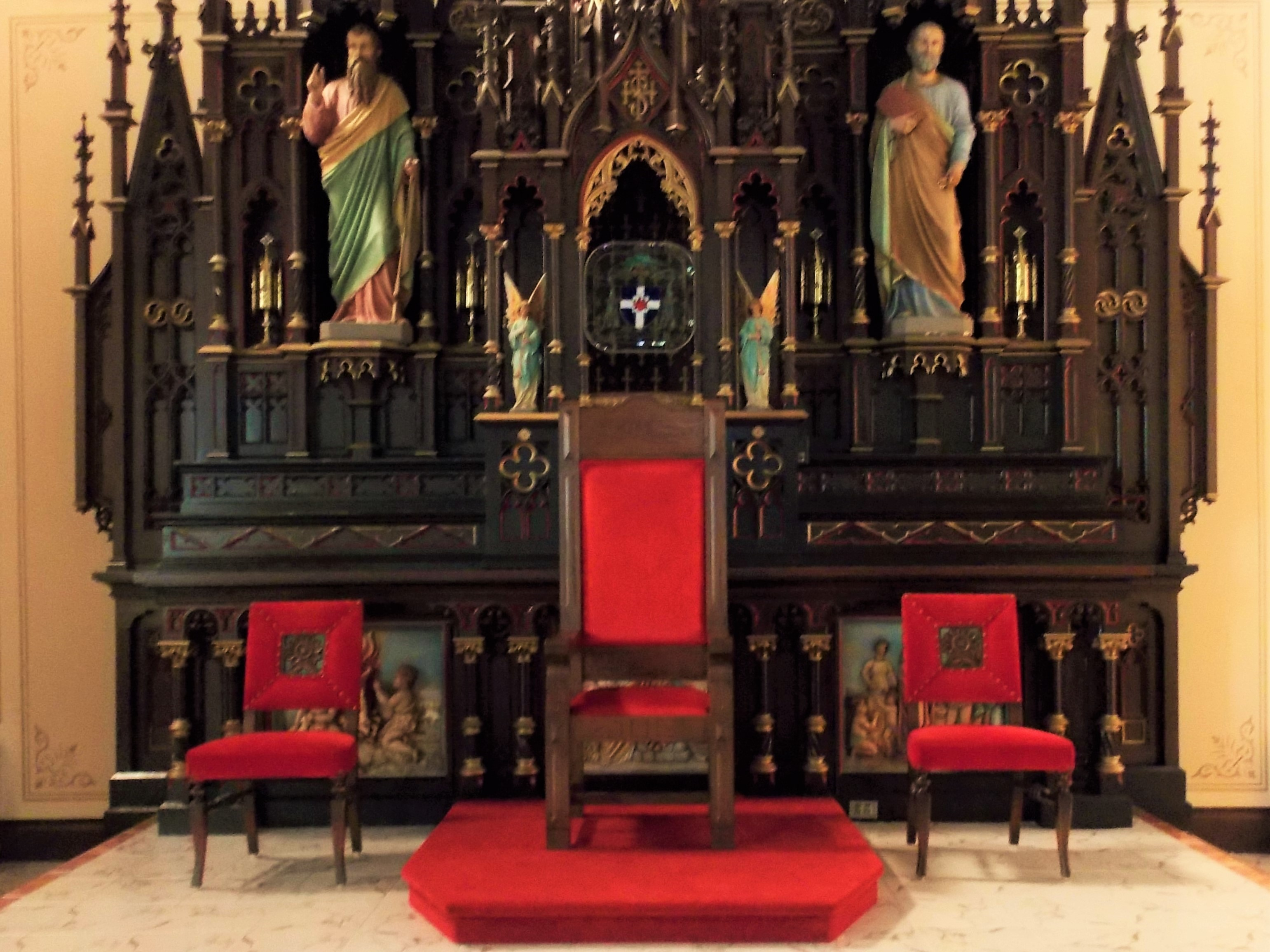 The cathedra in Sacred Heart Cathedral in Davenport, Iowa.